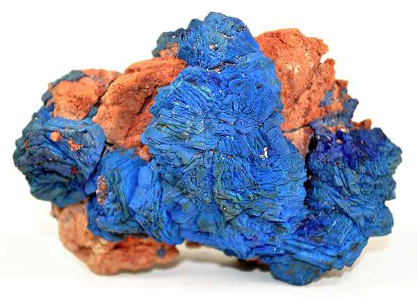 Azurite Locality: Morenci Mine (Morenci pit; Phelps Dodge Morenci Mine; Morenci-Metcalf), Morenci, Copper Mountain District (Clifton-Morenci District), Shannon Mts, Greenlee County, Arizona, USA (Locality at ) Size: 7.4 x 5.5 x 3.5 cm. An unusual habit of azurite from this mine, with matte-finish, powder-blue crystals standing in disc-like towers on contrasting matrix. Unusual. From the well-known Tucson collection of 40-year collector, Harold Urish.